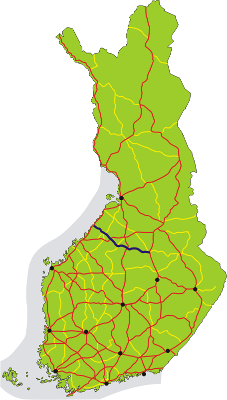 Map of the main road (highway) 27 in Finland, shown in dark blue. The other 1st class main roads (numbers 1–29) are red, 2nd class main roads (numbers 40–98) yellow. Black dots show the 12 biggest urban areas.